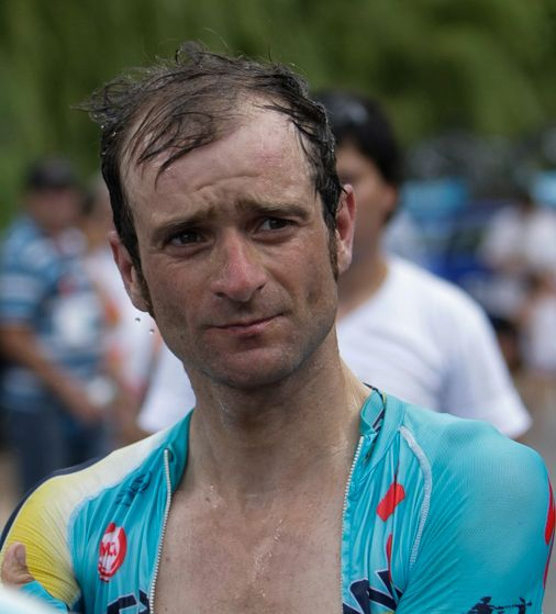 Michele Scarponi, Italian cyclist of Team Astana at the end of the 3rd stage of the Tour de San Luis 2014